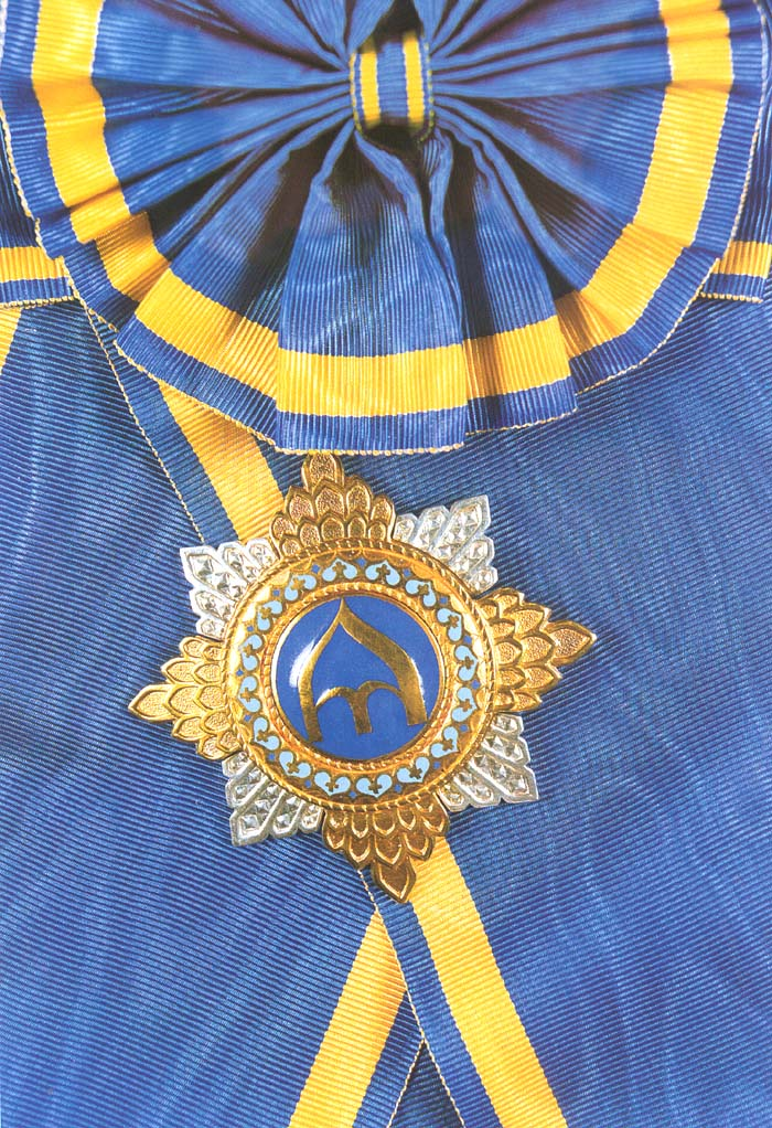 Order of the Yaroslav the Great